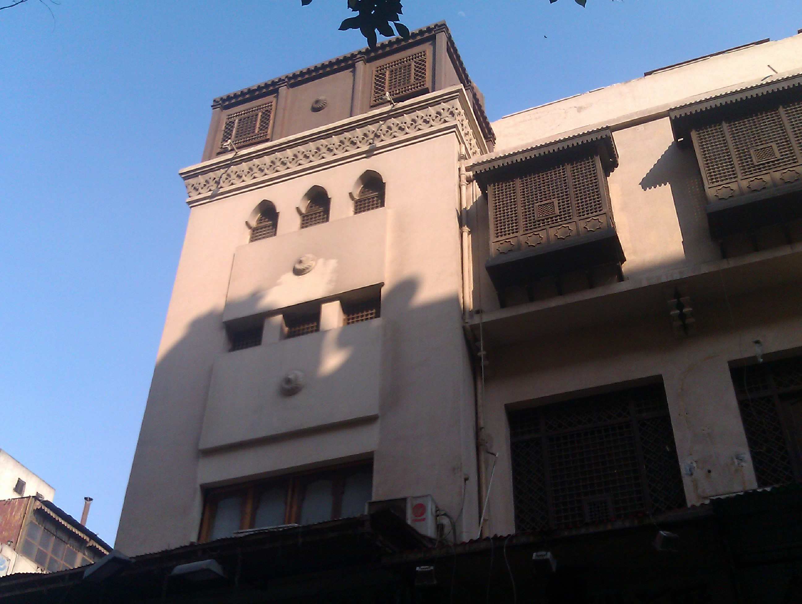 A residence situated by Khan El Khalili in Cairo.